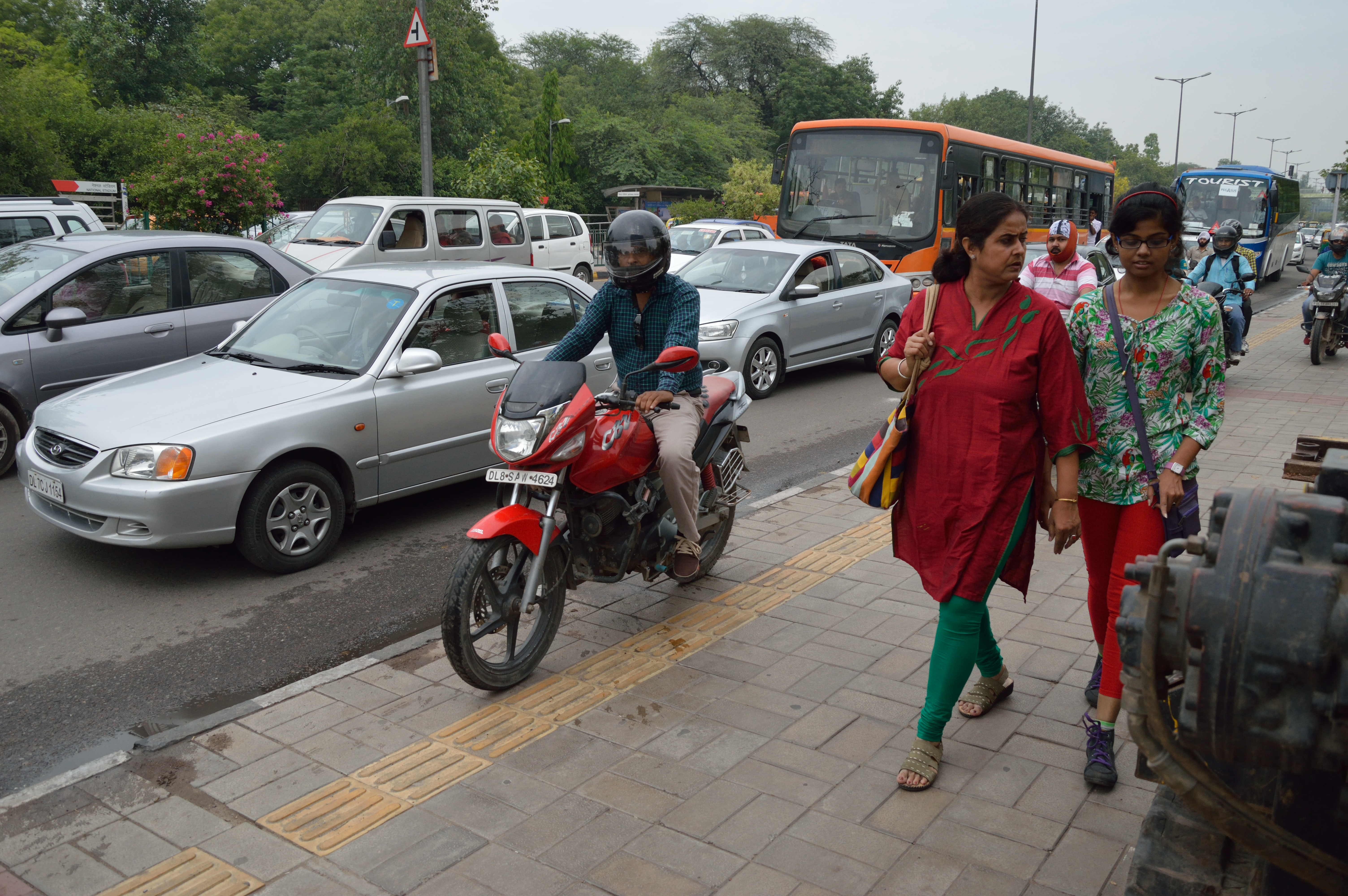 Photographed in New Delhi.